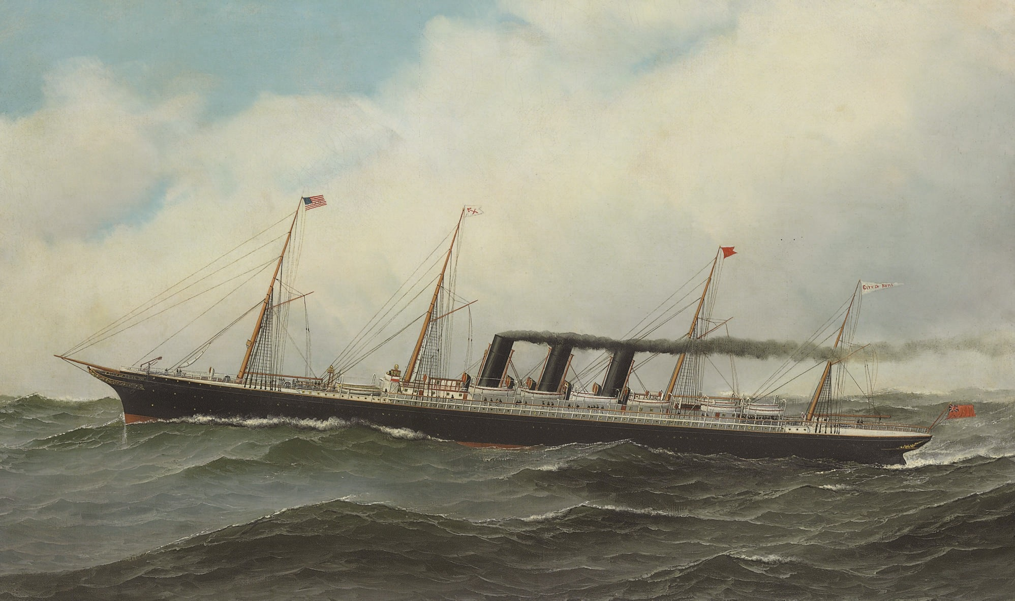 SS City of Rome, american steamer of the Inman Line. Oil on canvas